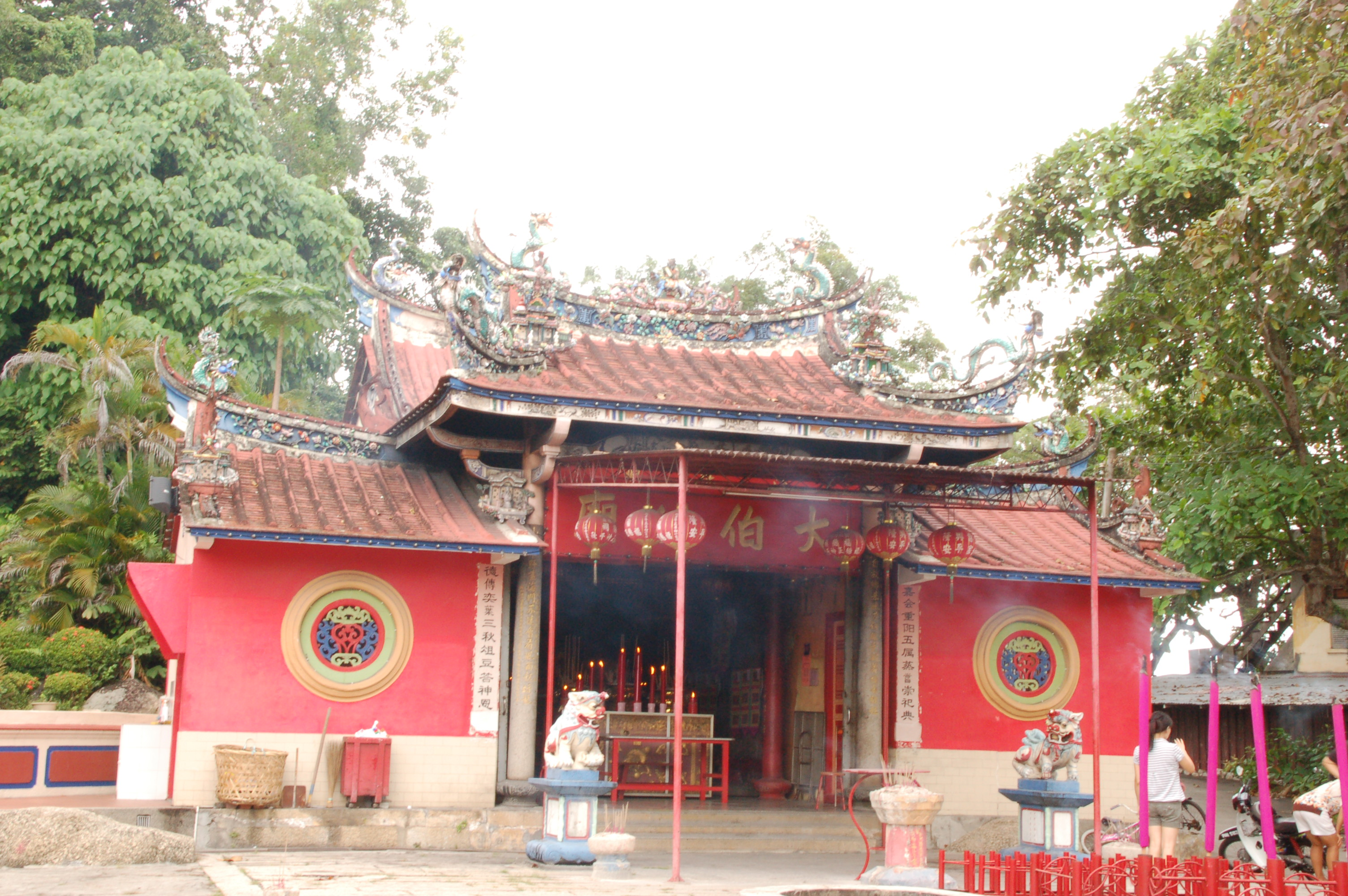 This is very famous Tua Pek Kong temple in Penang. During Chinese New Year, the fate of Penang economy for that particular year can be predicted with the fire of the cresent, the ceremony called `kua hui` or watch fire.